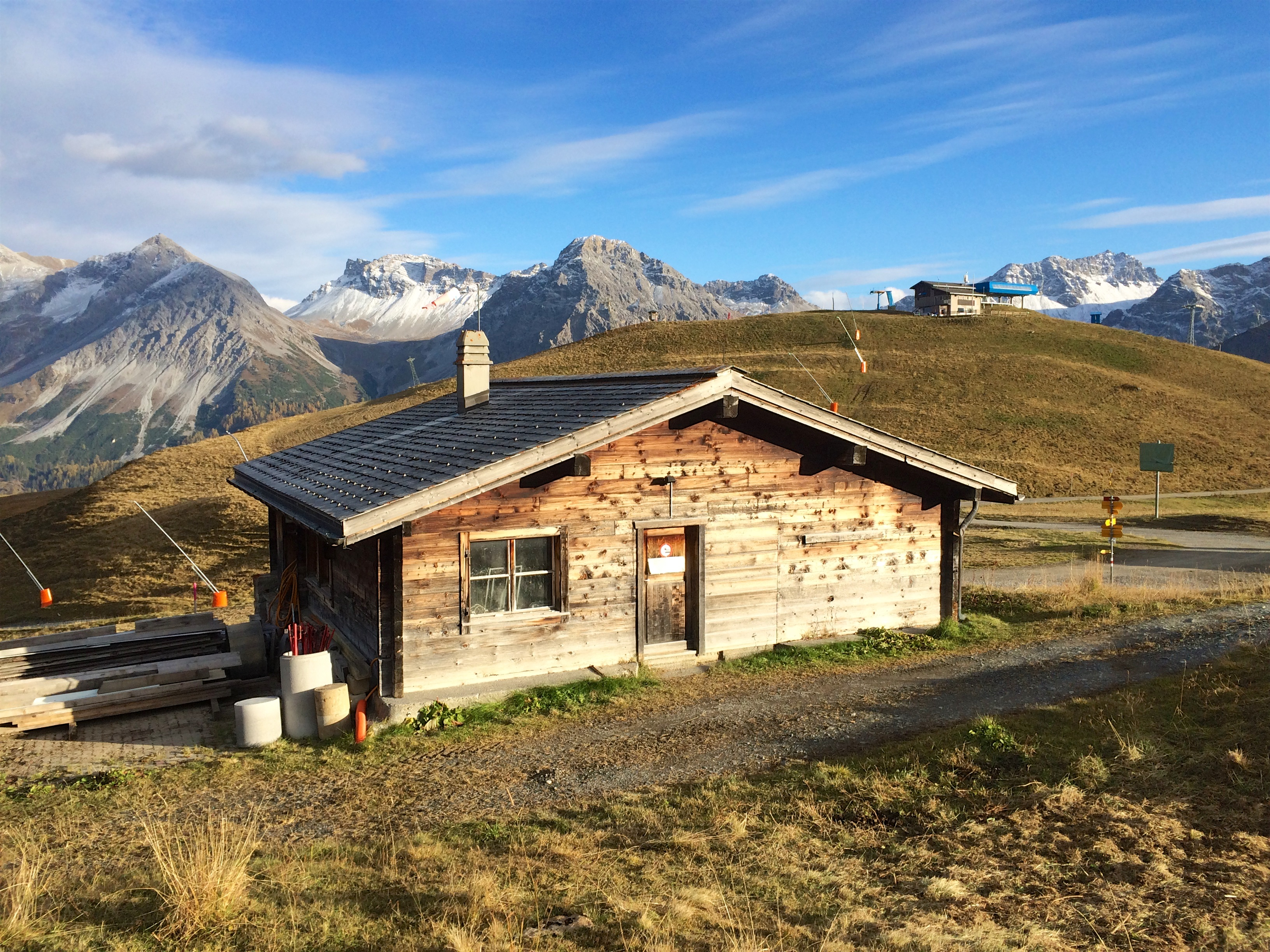 Former valley station of ski lift Weisshorn, Arosa/Switzerland